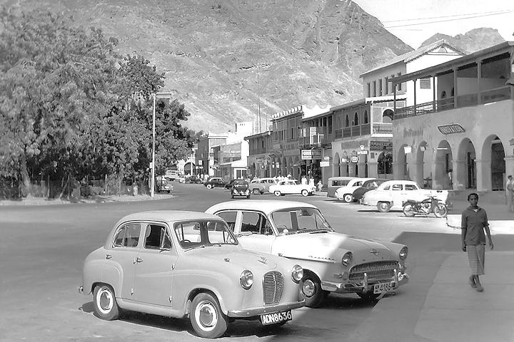 View of a section of The Crescent, Aden's fashionable shopping street. Photo taken c. 1960.